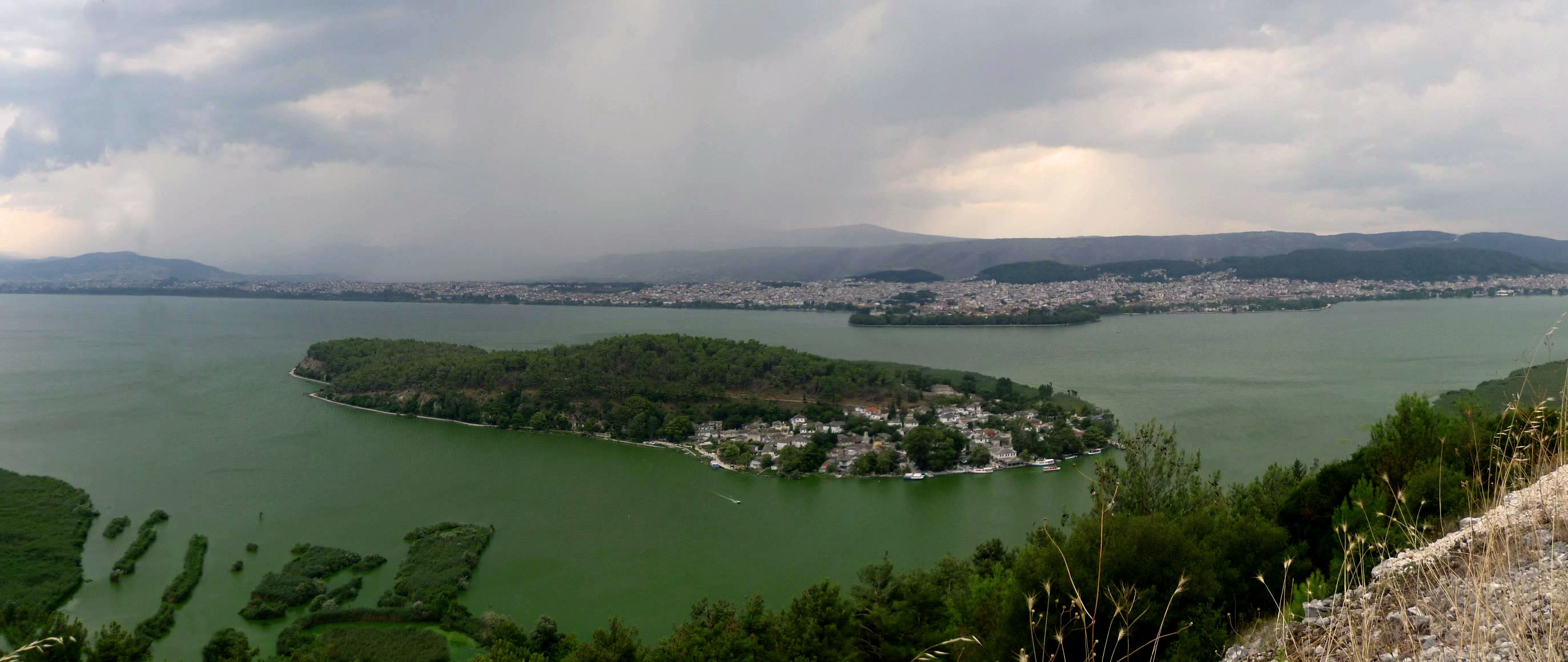 View of Ioannina lake from Mitsikeli mountain